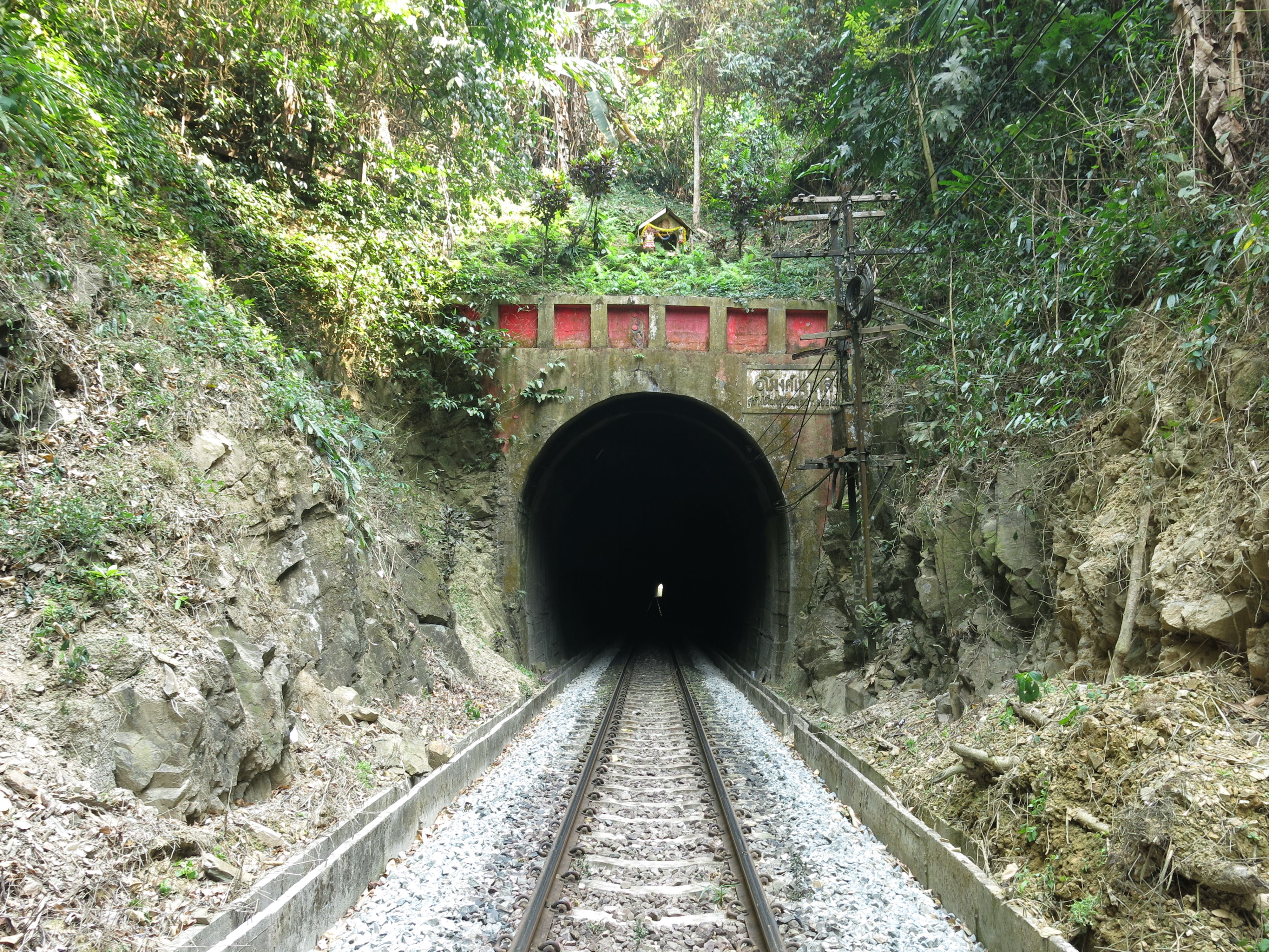 This is the north portal of Khao Plueng Tunnel, Phrae - Taken by Mark Robinson 2018